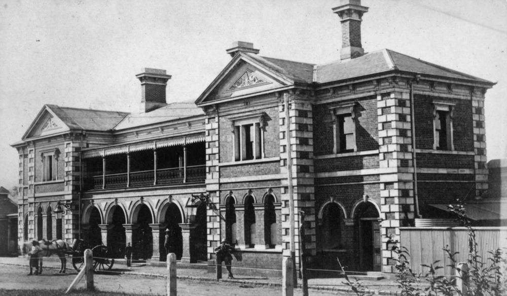 Two storey Railway Station building at Toowoomba, ca. 1872.